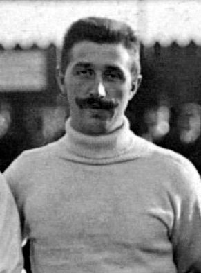 Adolf Werner in 1910. (Duitse elftal